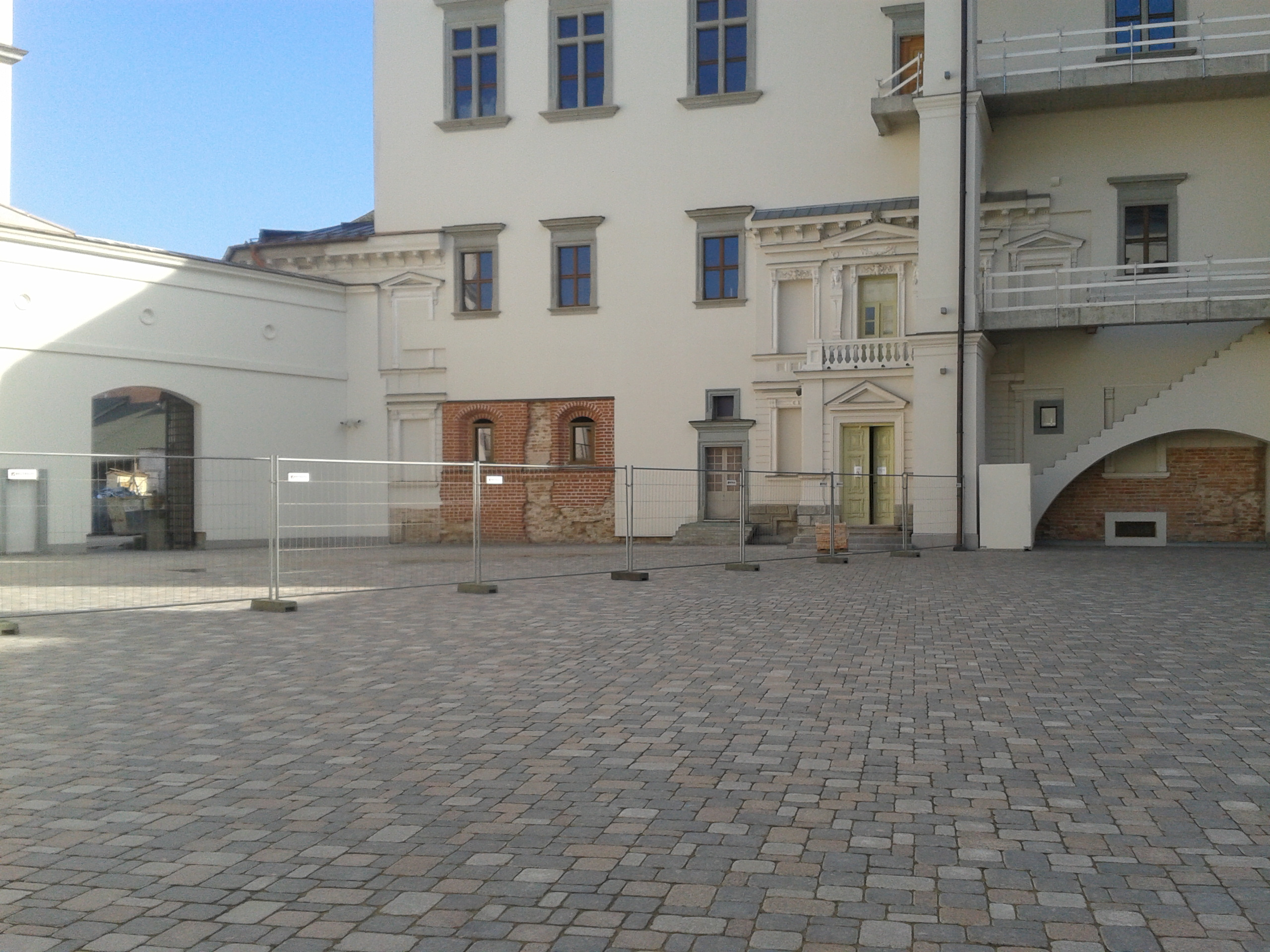 Schlossberg's house in 2015